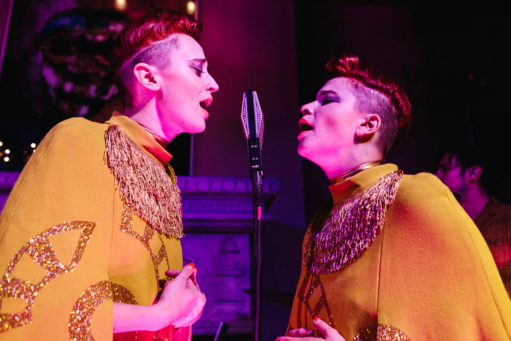 Lucius perform at the Gramercy Park Hotel Rose Bar on January 26 2016.